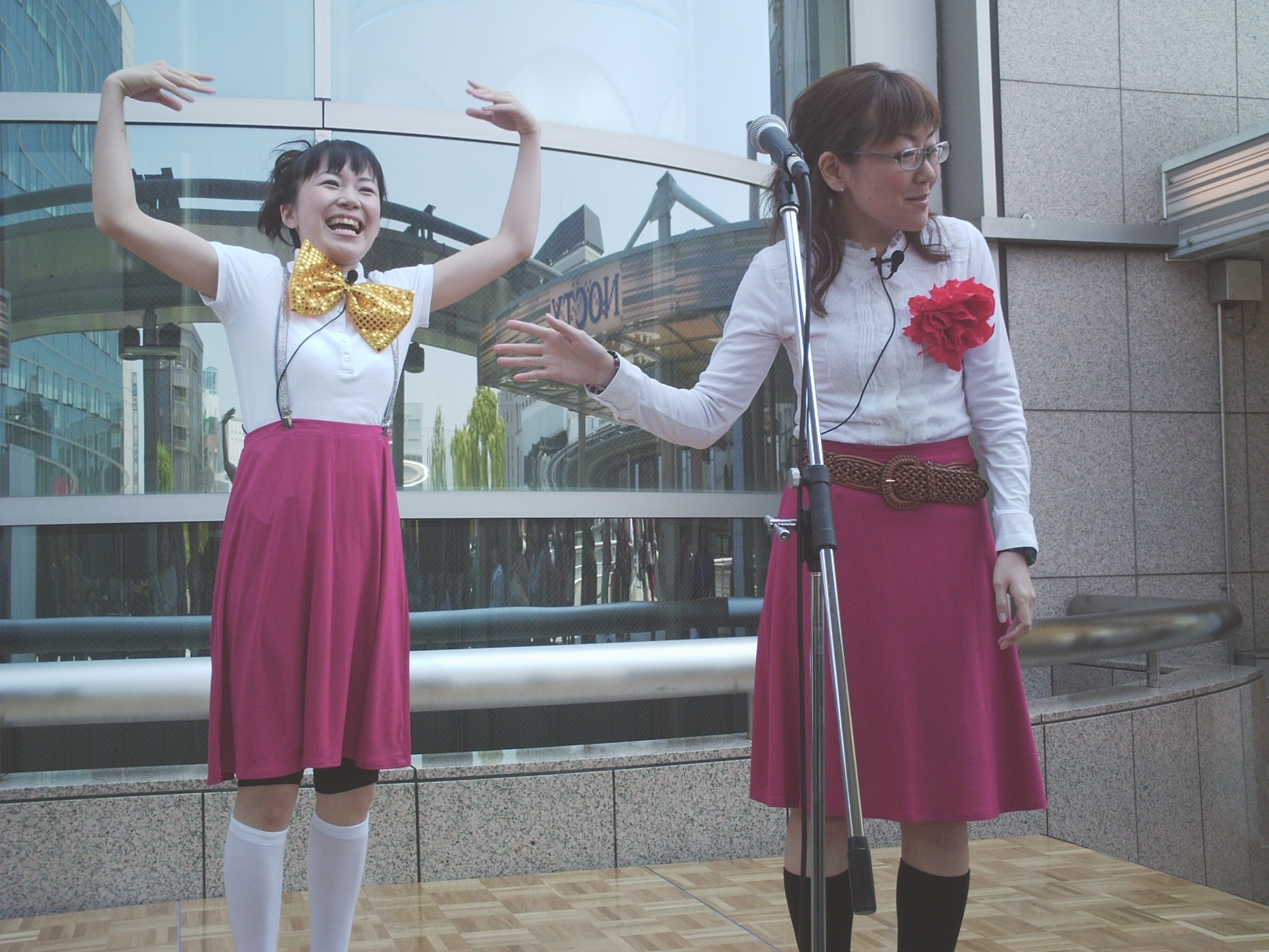 ザ・アンモナイト (2009年4月)